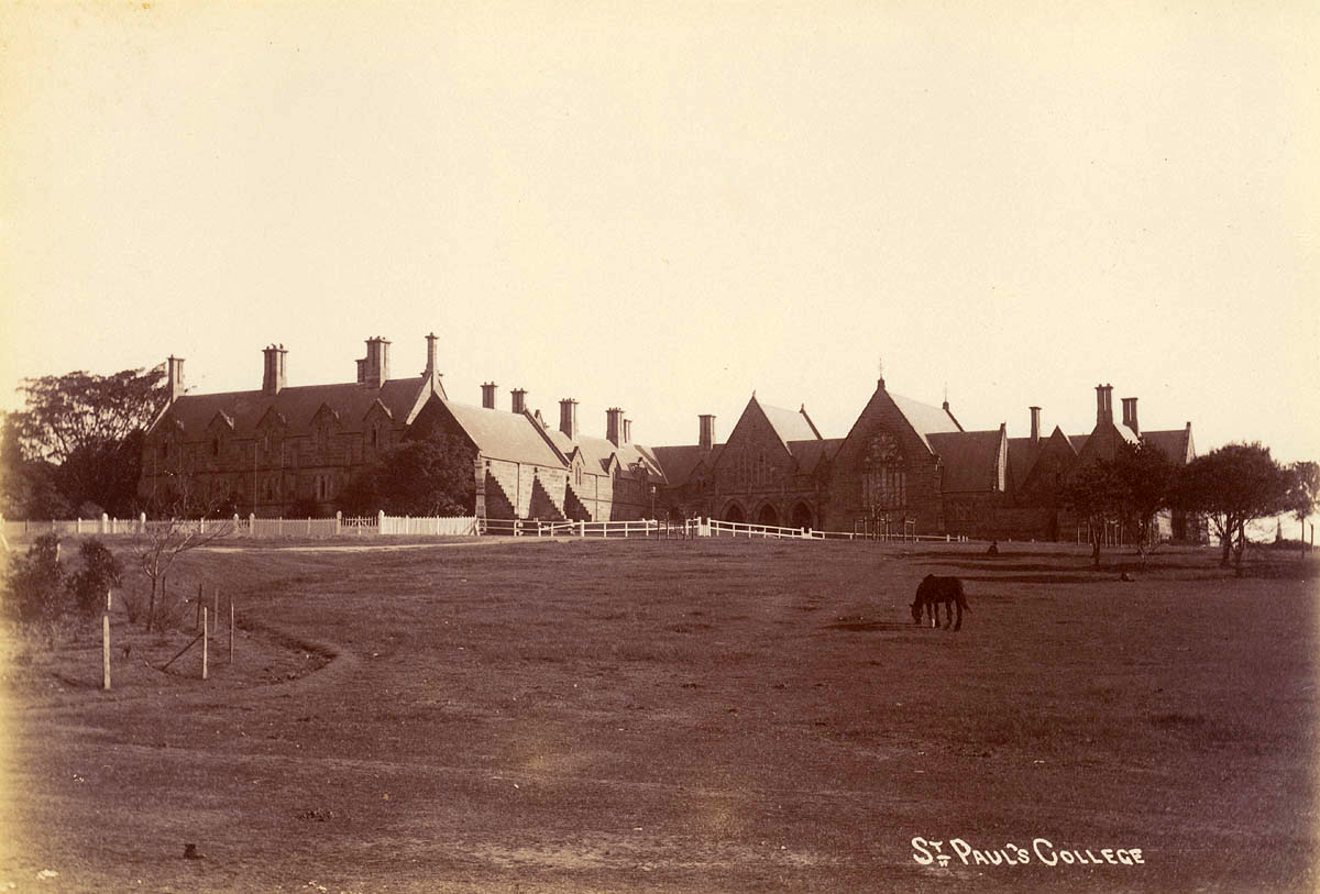 St Paul's College, University of Sydney, in the 1900s.